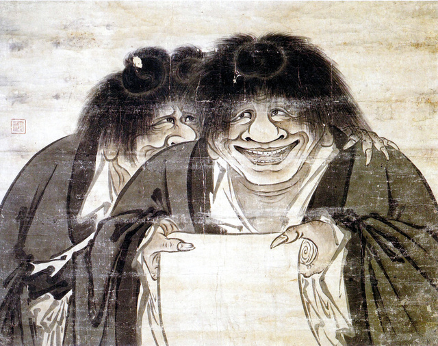 painting of Hán shān and Shí dé,Important Cultural Properties of Japan